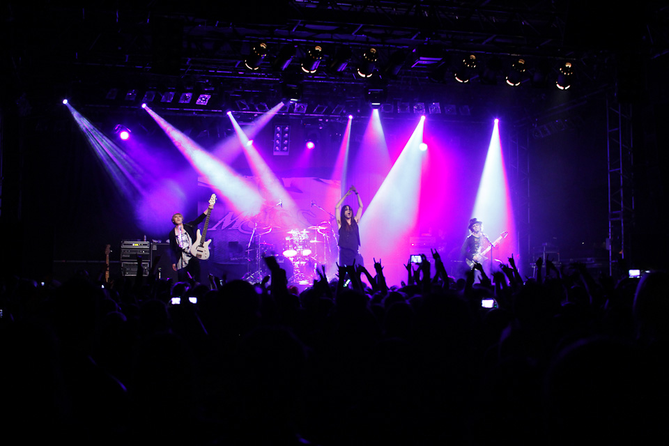 MUCC performing at the Élysée Montmartre in Paris. October 2009